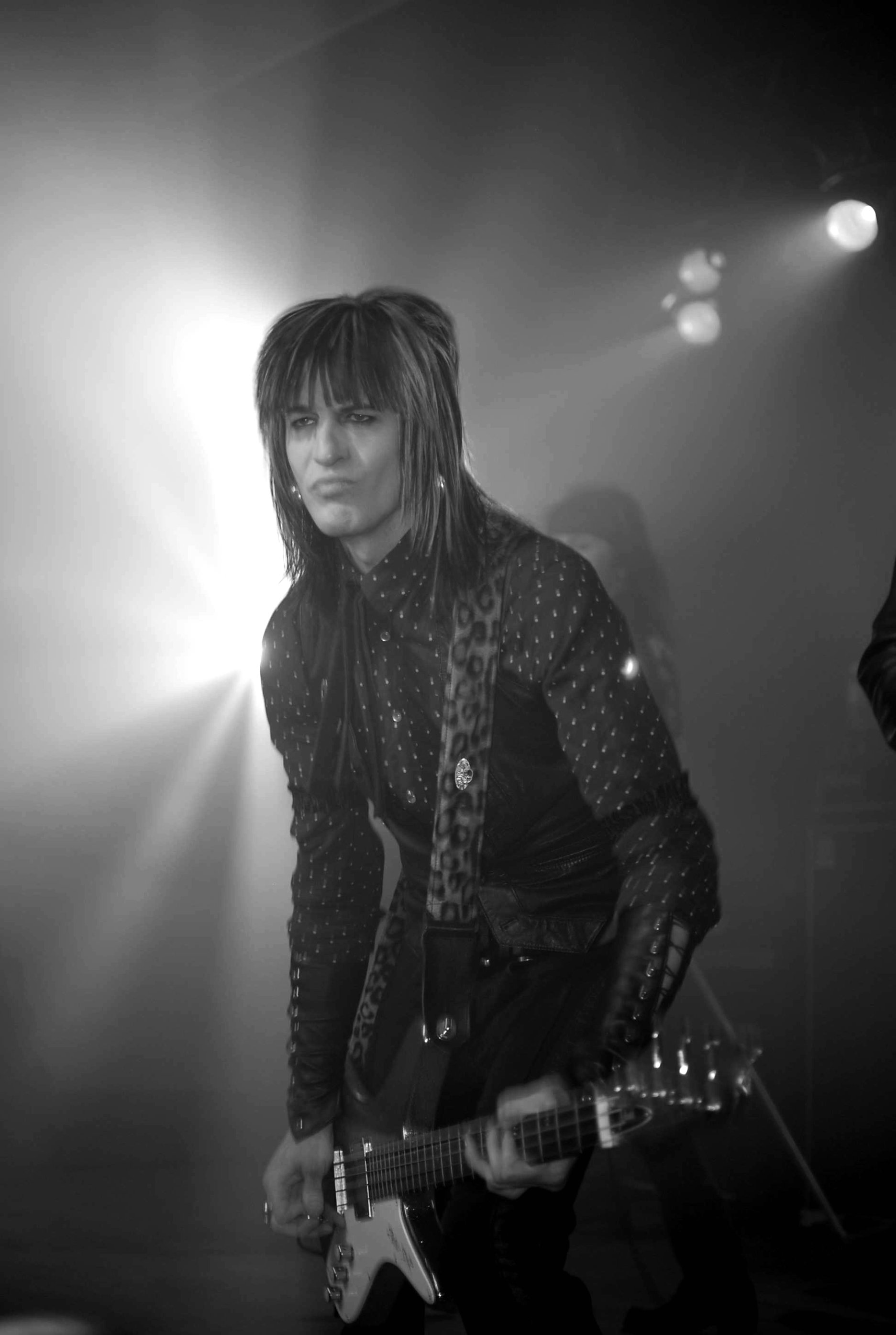 Guitarist Kenny Kweens performing with L.A. Guns, former bassist for Beautiful Creatures. Photo by Ted Van Pelt.